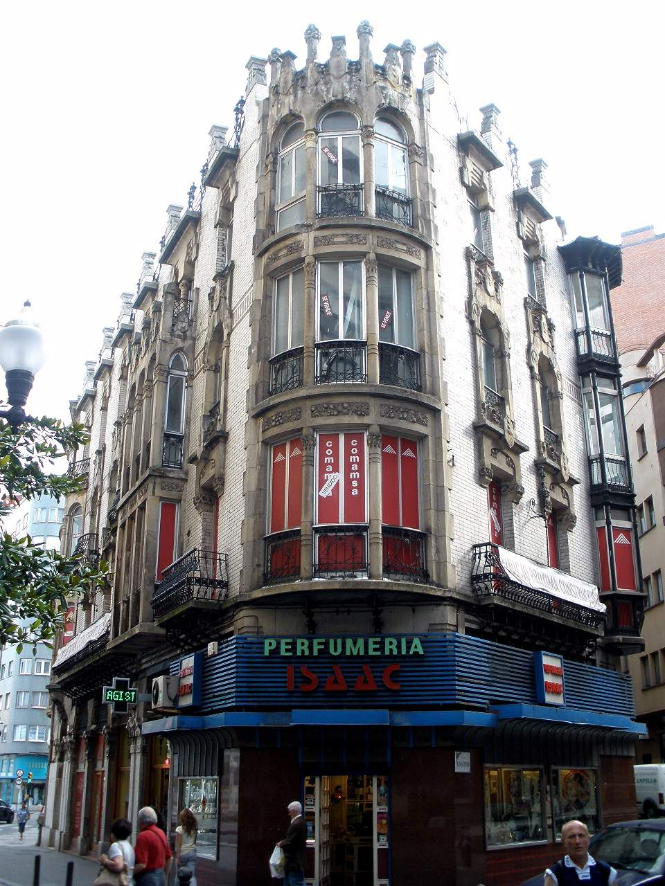 Edificio Siemens, Gijón